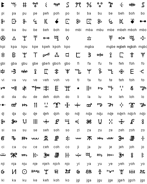 Vai syllabary